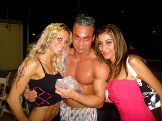 Camey Mallette, Teddy Hart and his girlfriend Nikki at a UXW wrestling event in Orlando Florida. PHOTO BY ROB BEUKEMA